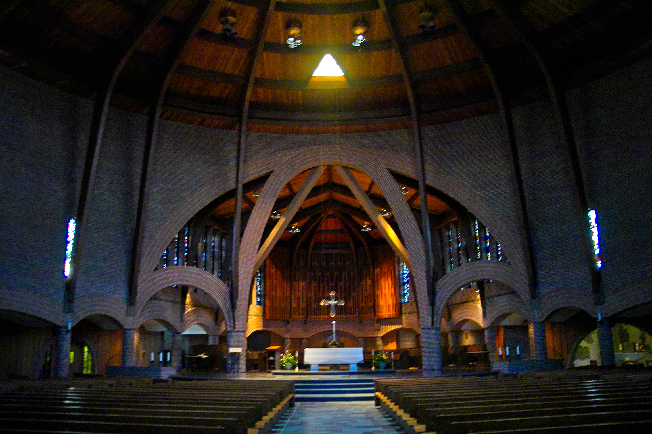 Abbey inside shot 2